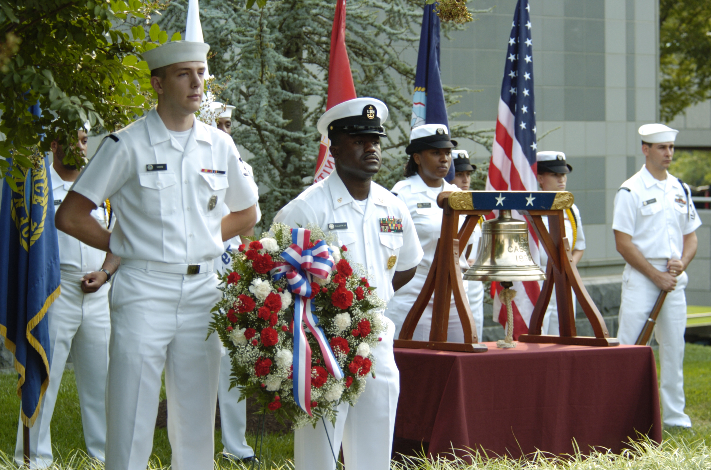 Suitland, Md. (Sept. 9, 2005) - Sailors assigned to the National Maritime Intelligence Center (NMIC) participate in a 9-11 Remembrance Ceremony. NMIC Sailors, along with family and friends gathered to pay respects to the eight shipmates who lost their lives during the attacks on September 11, 2001. U.S. Navy photo by Photographer’s Mate 2nd Class Brandon Malone (RELEASED)